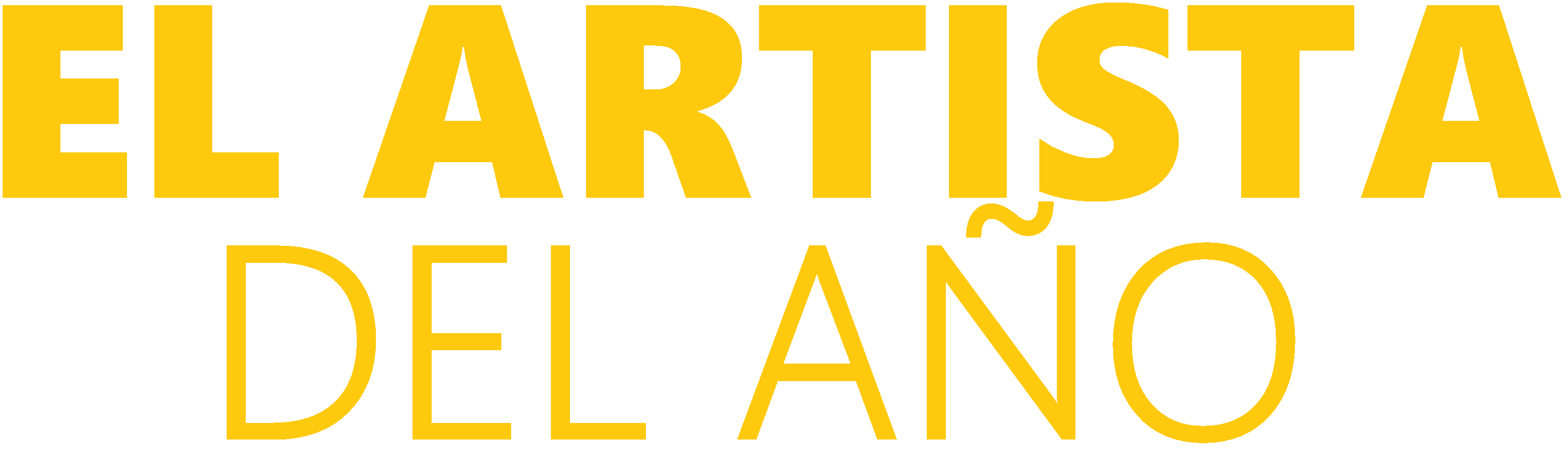 Reality show logo El Artista del Año